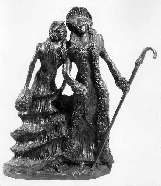 Bronze sculpture by Ethel Myers